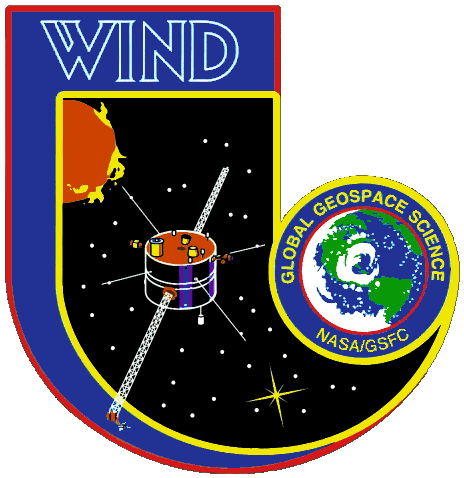 Logo for the WIND Satellite launched on November 1, 1994.